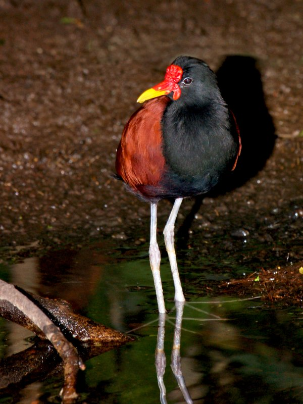 Wattled Jacana at Krefelder Zoo